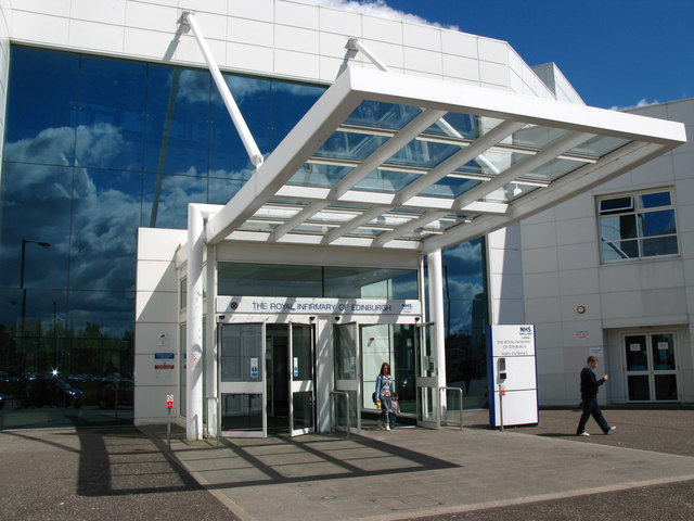 Main Entrance, Edinburgh Royal Infirmary Building for Edinburgh's new PFI hospital/teaching complex at Little France started in 1996 and was completed in 2002 at an approximate cost of £184m. The site also houses the new University of Edinburgh Medical School. The New Edinburgh Royal Infirmary was designed in line with the City of Edinburgh Council’s Green Transport Policy. New bus routes linking Little France with Edinburgh's centre were created plus Park and Ride facilities.